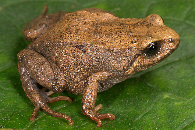 Bryophryne zonalis